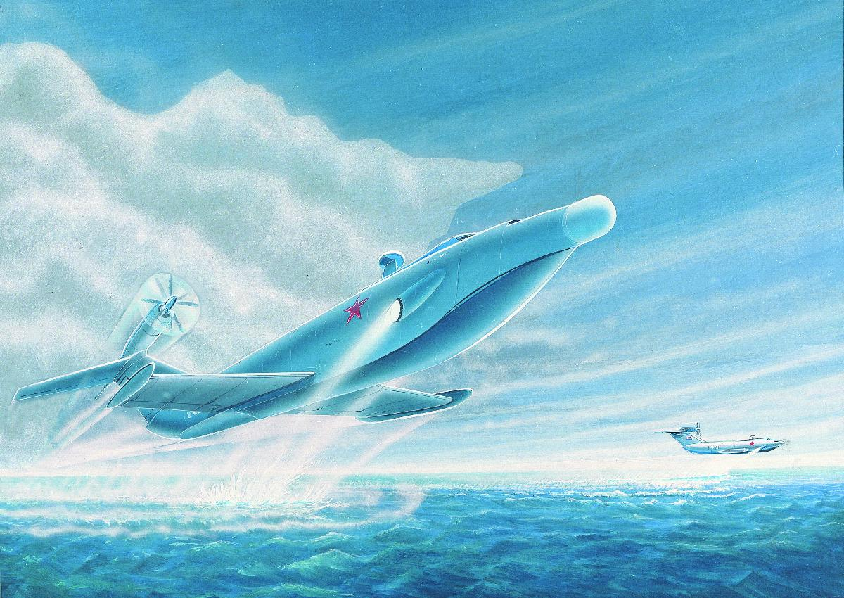 SOVIET WING-IN-GROUND EFFECT AIRCRAFT During the 1980s, the Soviets continued testing various wing-in-ground effect vehicles for use in coastal defense and amphibious operations. The ORLAN-Class, seen here, takes advantage of the increased aerodynamic lift that occurs when a wing operates near the surface. This greatly increases the craft's ability to carry heavy loads over long distances, especially over water, making it well-suited for amphibious warfare.